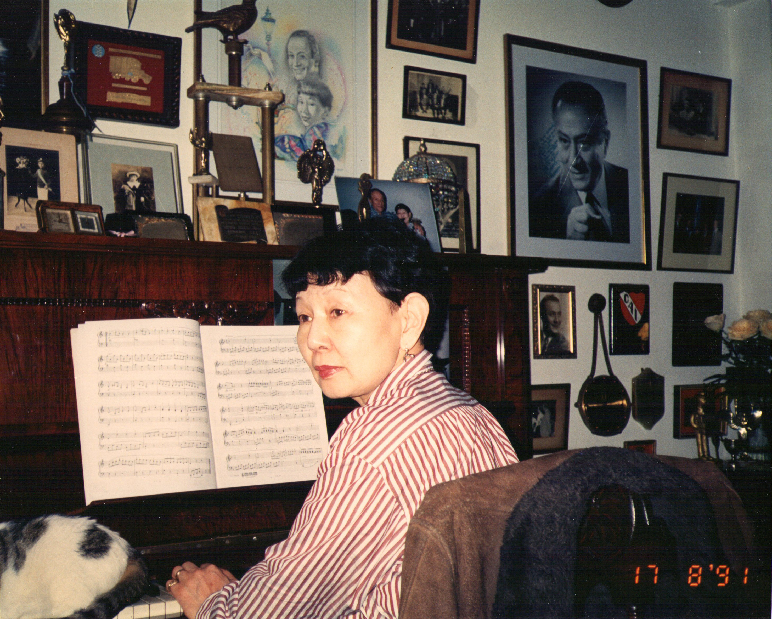 Akiko Kawarai composing tango.